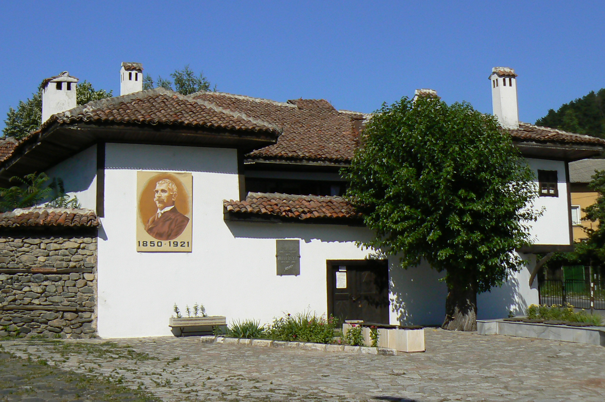 House-museum of Ivan Vazov in Berkovitsa, Bulgaria